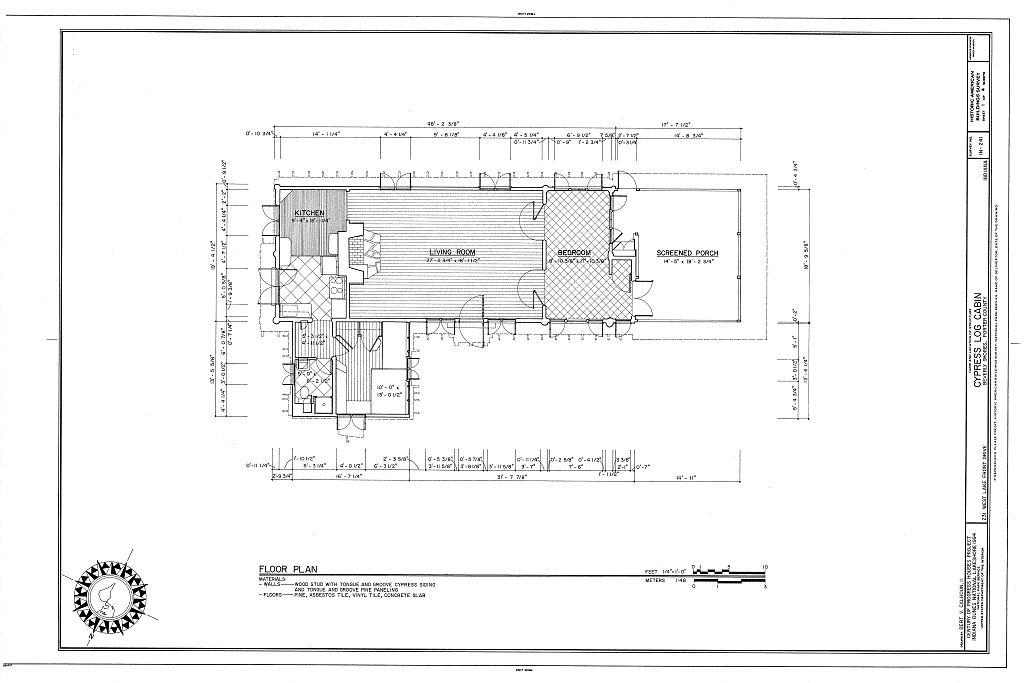 Cypress Log Cabin, floor plan, Century of Progress, Beverly Shores, Indiana